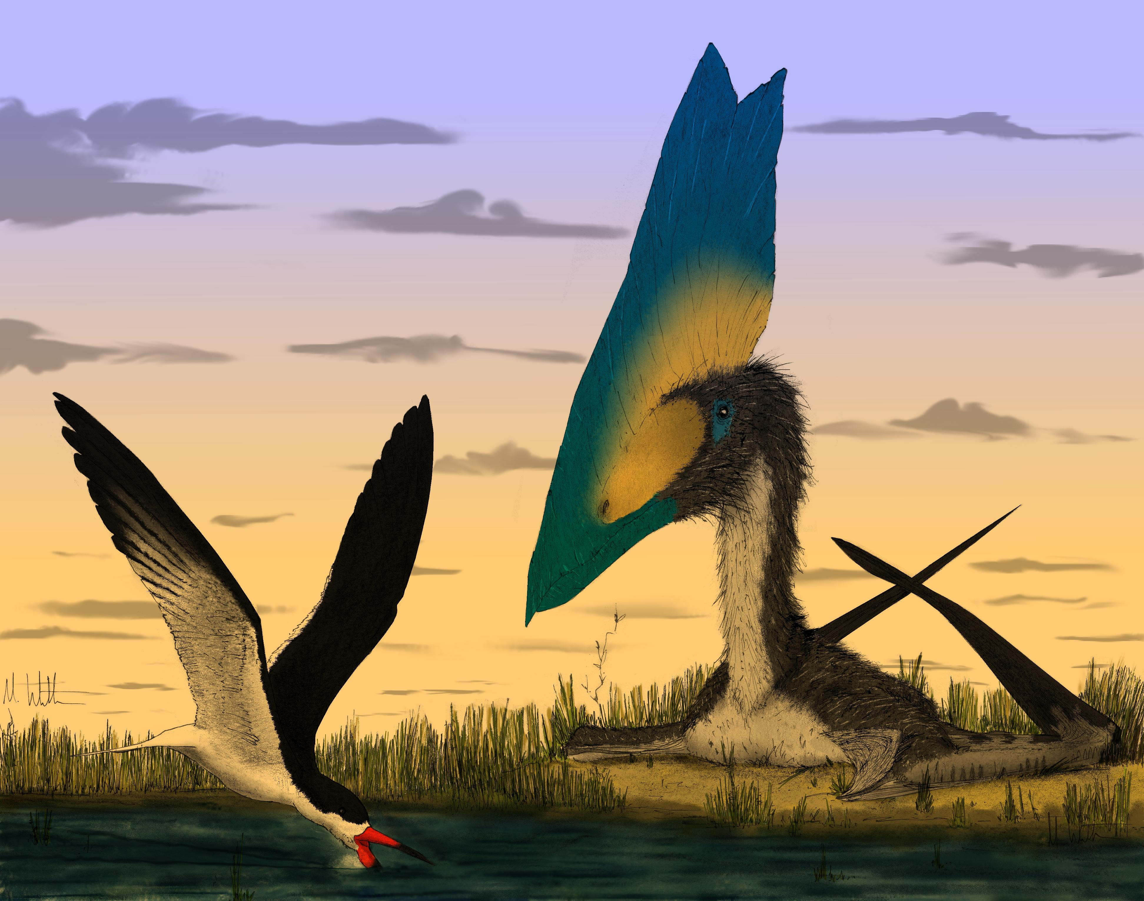 Physical and theoretical models show that pterosaurs (Thalassodromeus, right) could not meet the energy requirements of skimming, a rare feeding strategy practiced habitually by just a few extant Rynchops species (black skimmer, left). (Image: Mark Witton)